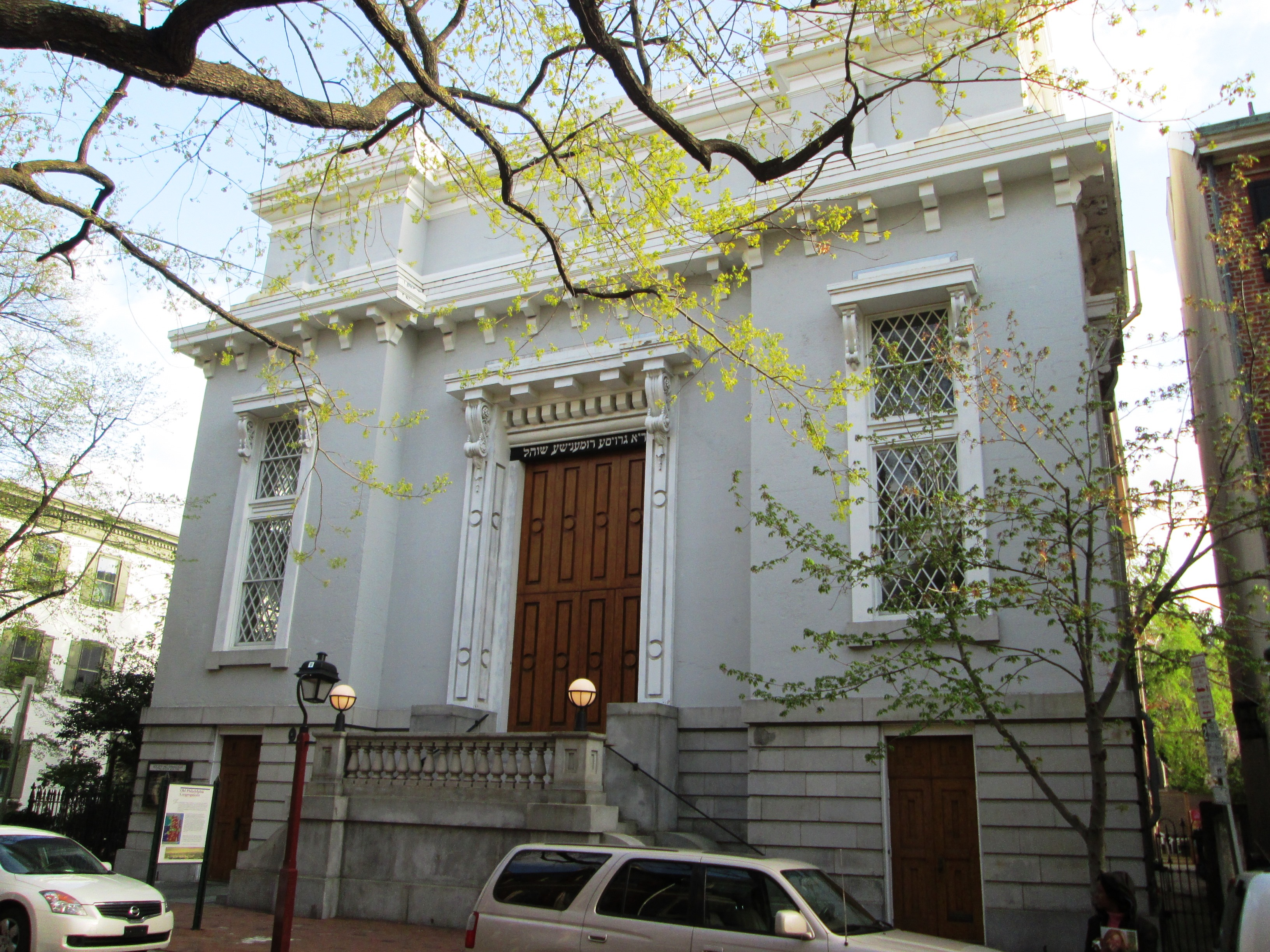 The Society Hill Synagogue at 418 Spruce Street at the corner of S. 4th Street in the Society Hill neighborhood of Philadelphia was built in 1829-30 and was designed by Thomas U. Walter. It was altered in 1851. (Source: Philadelphia Architecture: A Guide to the City (2nd ed.))